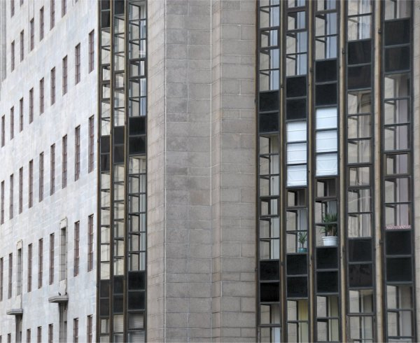 As remarked by Federico Freschi (see the wikipedia page for the Mutual Building) the prismoid windows in the Mutual Building (towards the right hand side of the image) are much more dramatic than the conventional windows in the General Post Office building on the other side of Darling Street (at the left hand side of the image).